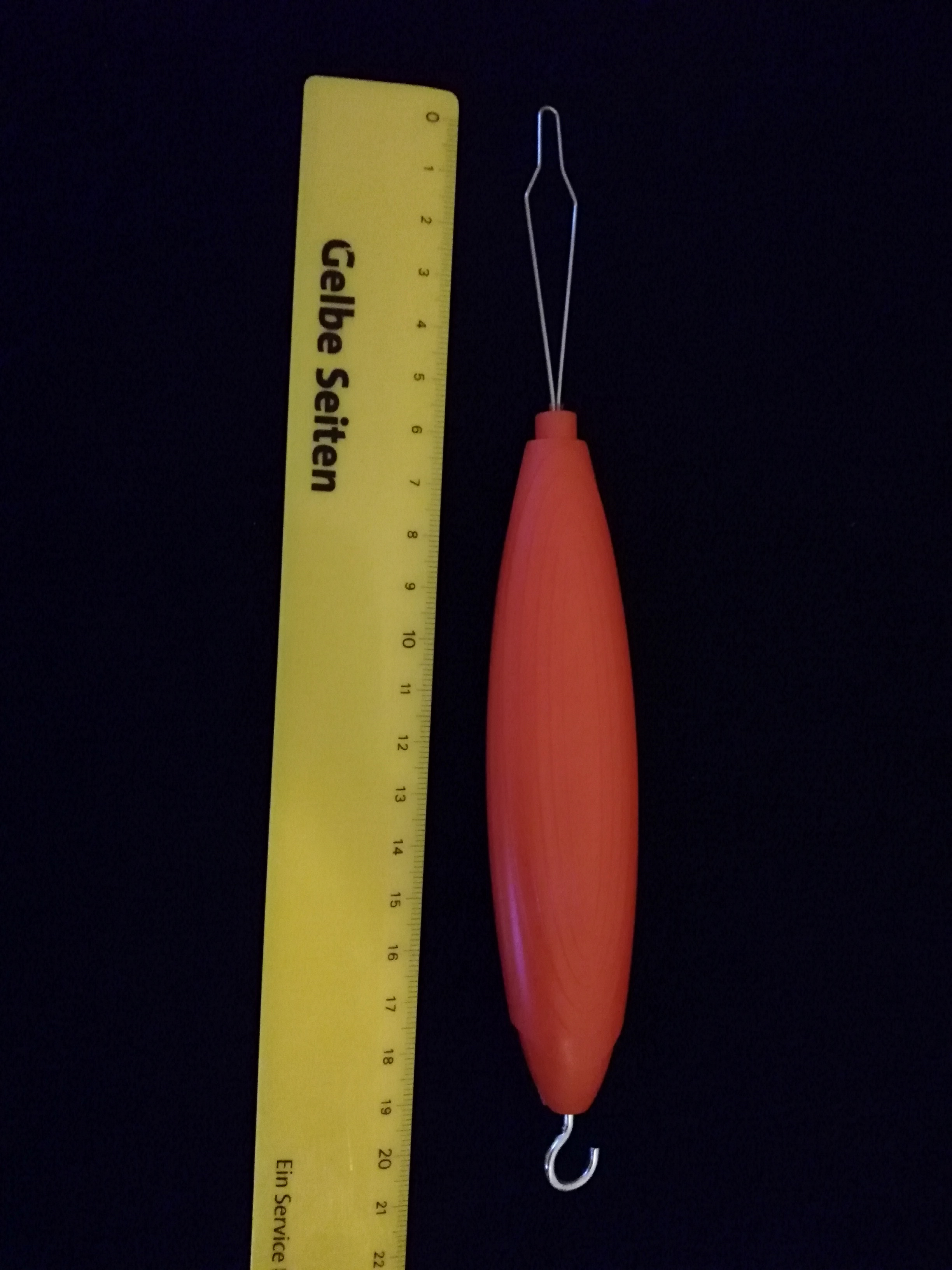 Modern buttonhook and zipper help